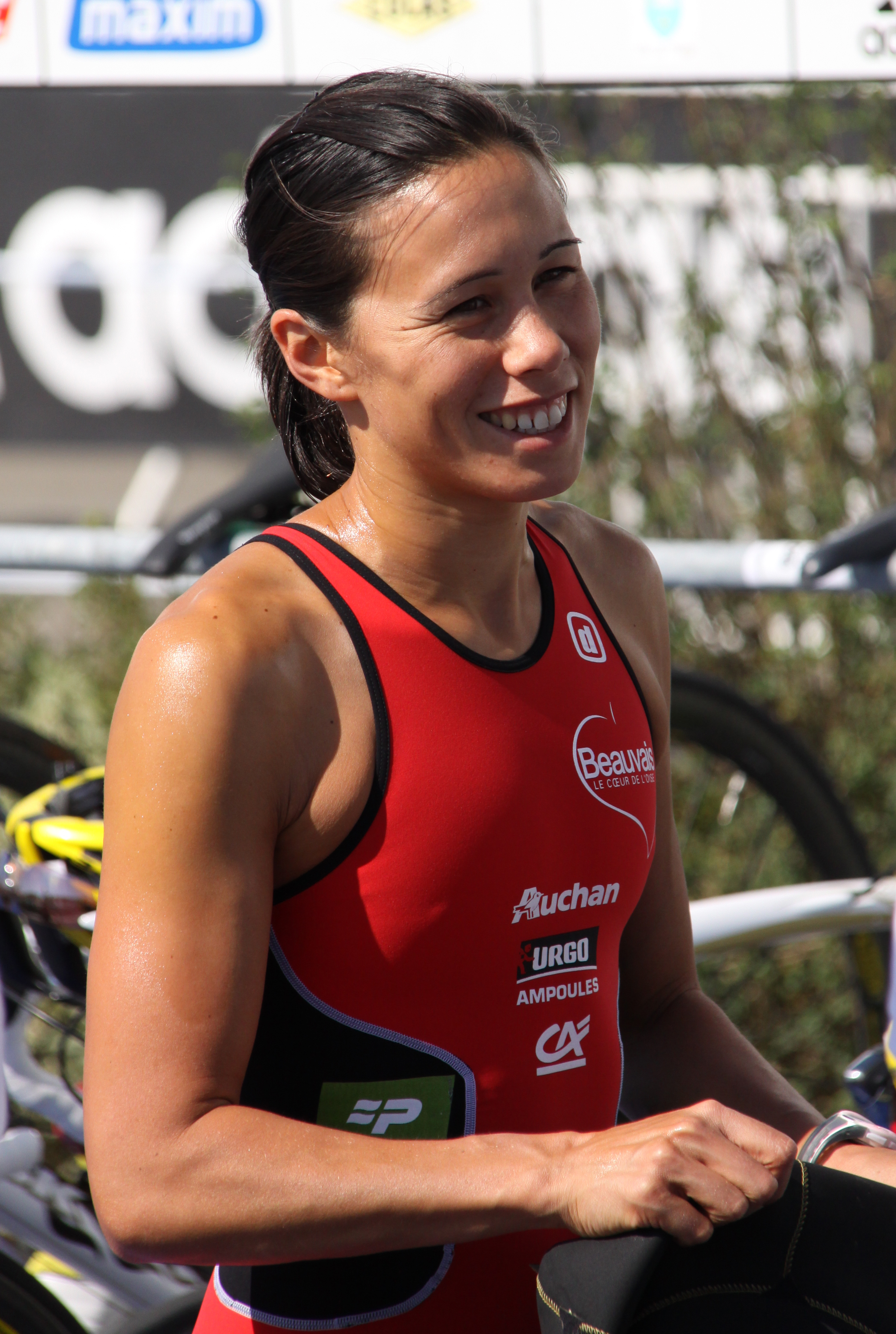 Andrea Hewitt Triathlon La Baule